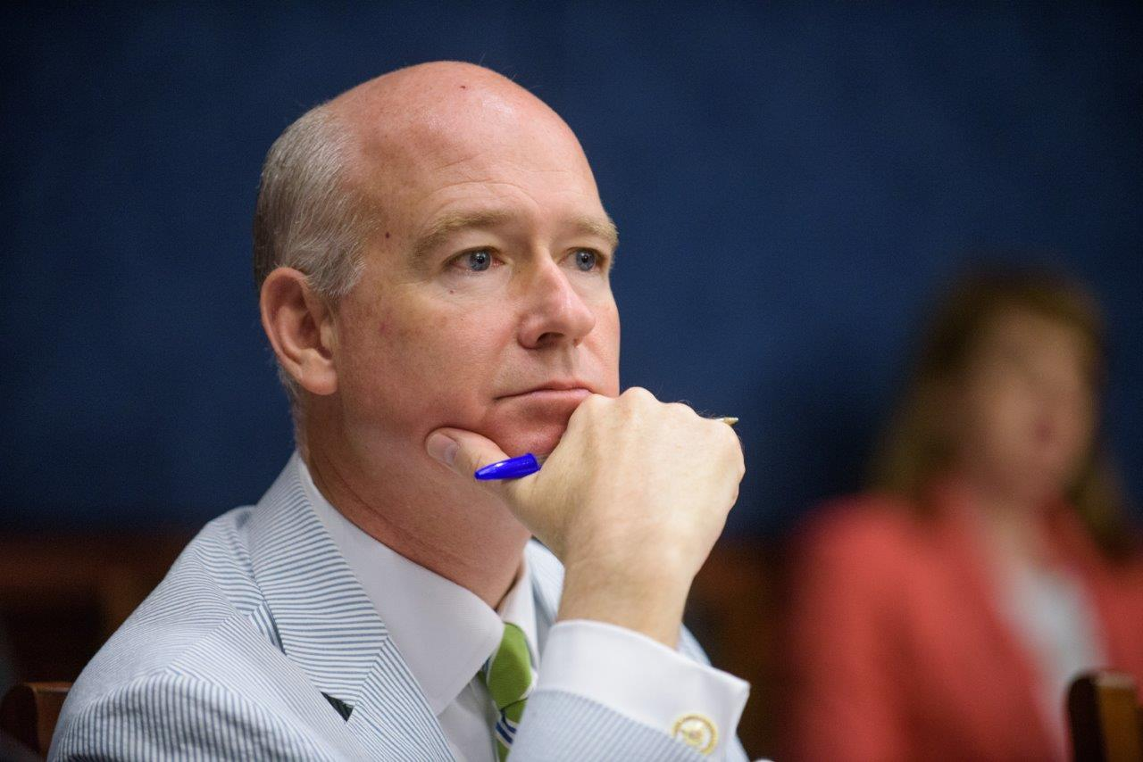 Representative Robert Aderholt at the U.S. Helsinki Commission’s hearing on the Romanian Anti-Corruption Process on June 14, 2017